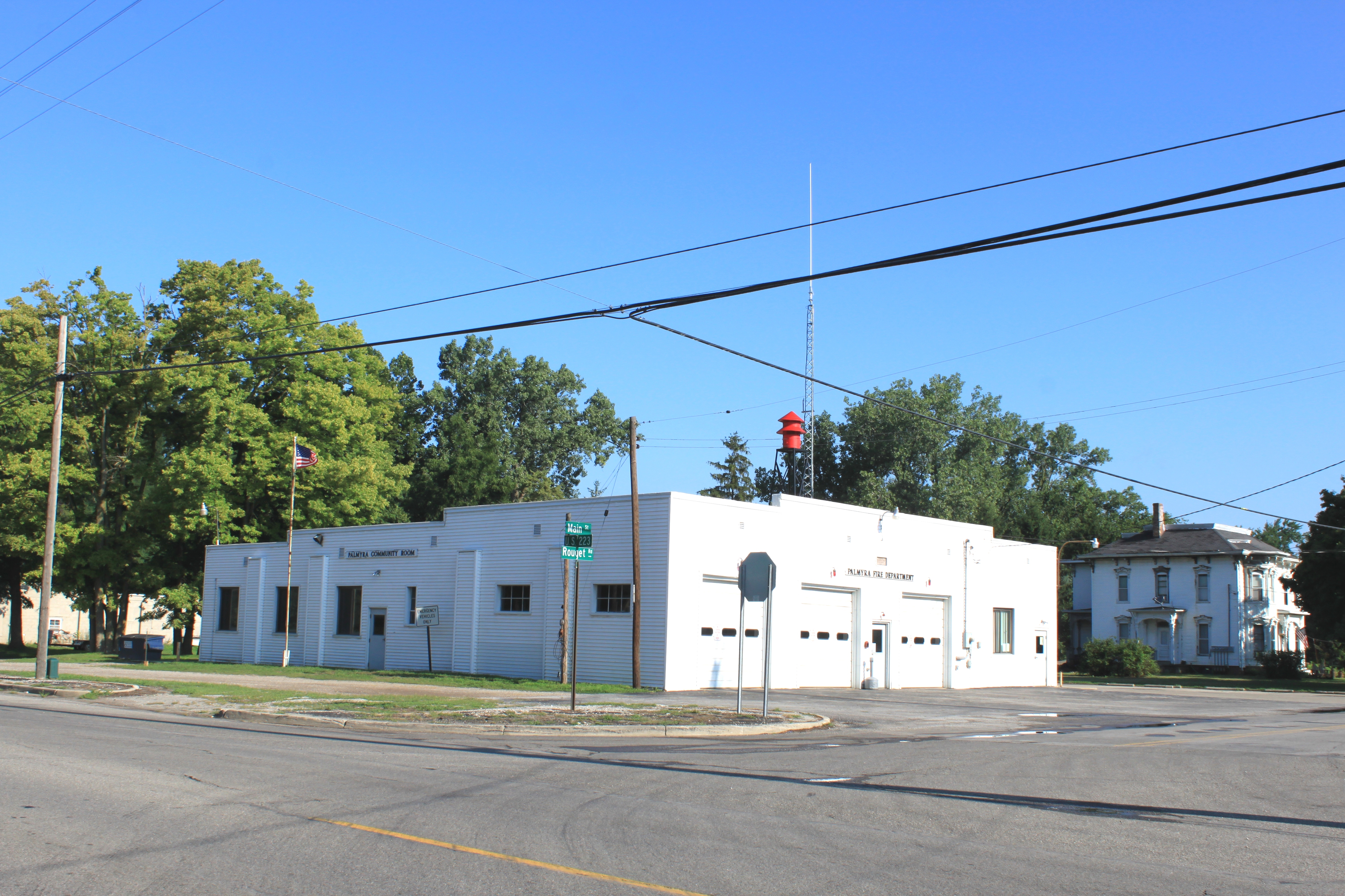 Palmyra Township Hall, 4276 Rouget Road, Palmyra Township, Michigan.